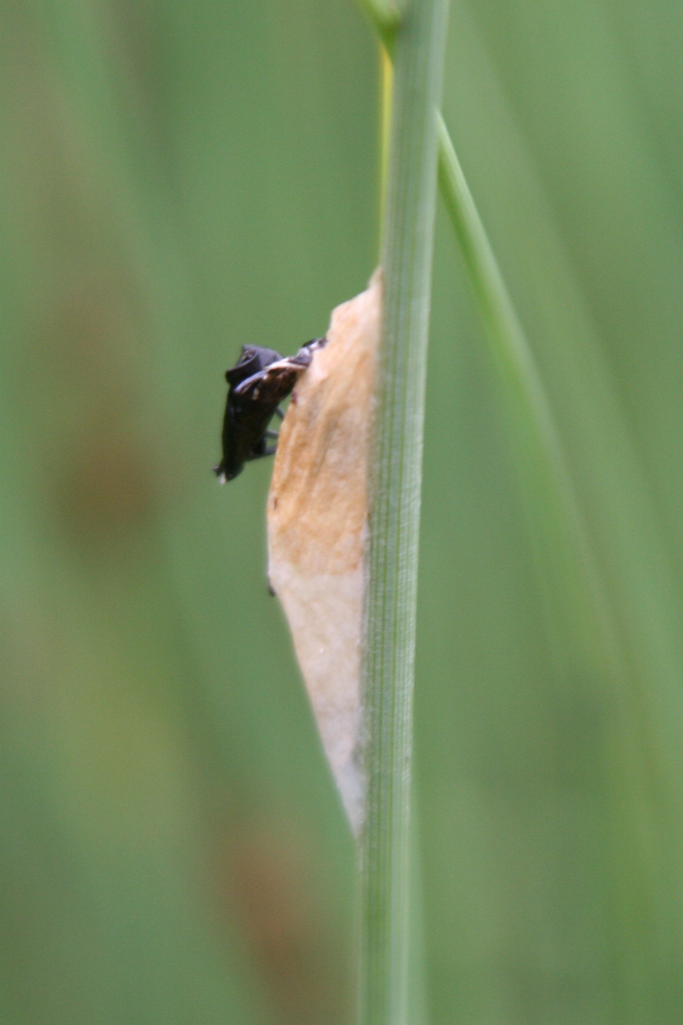 Cocoon of an unspecfied species of burnets (Genus Zygaena), perhaps Zygaena filipendulae, photographed near a wet meadow in Weinsberg